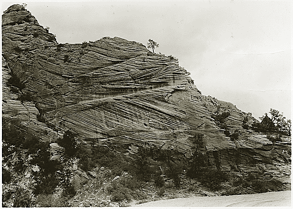 Crossbedding of sandstone near Mt. Carmel road, Zion Canyon, indicating wind action and sand dune formation prior to formation of rock., 09/02/1929